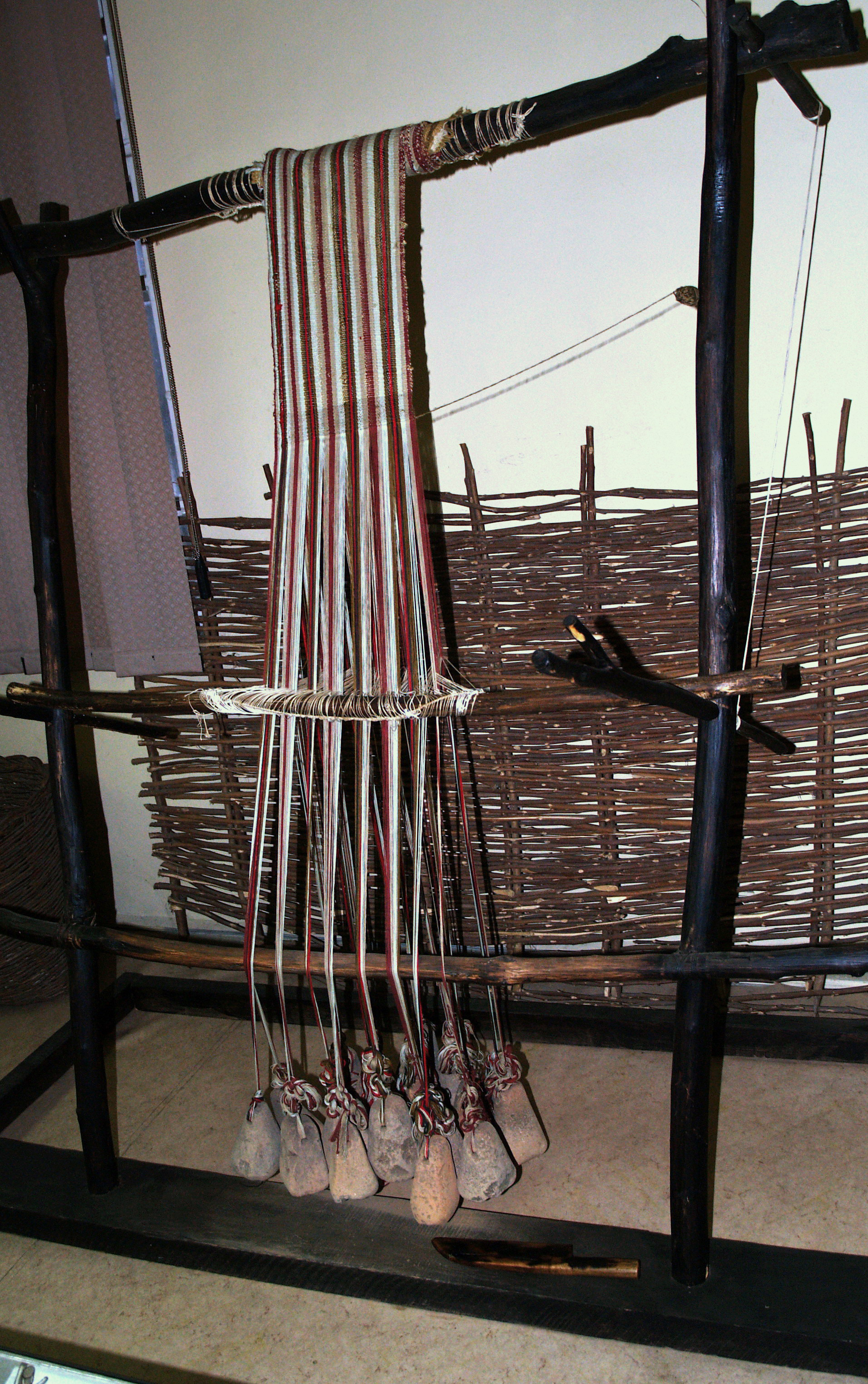 Reconstruction of a vertical neolithic loom, National museum of textile indusstry, Sliven Реконструкция на неолитен стан, Национален музей на текстилната промишленост, Сливен